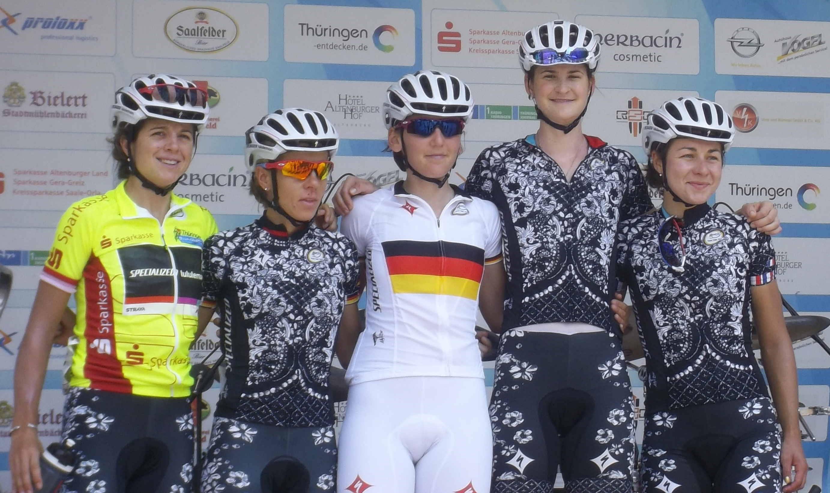 Tean Specialized Lululemon team at Thuringen Rundfahrt 2014 stage 5